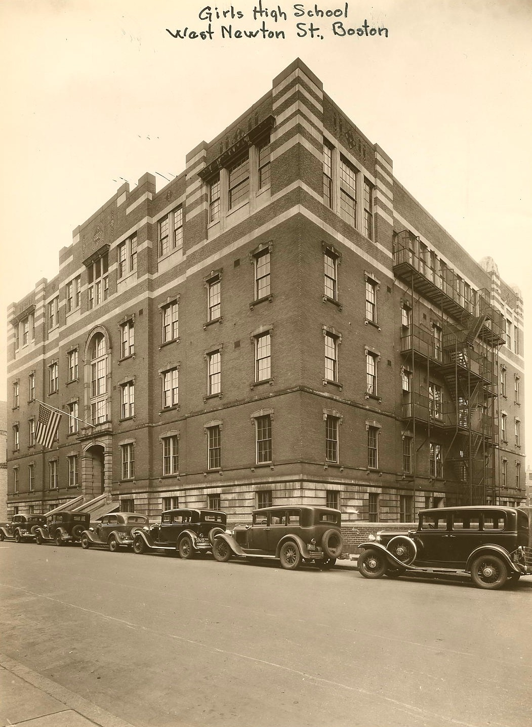 Girls' High School: Exterior